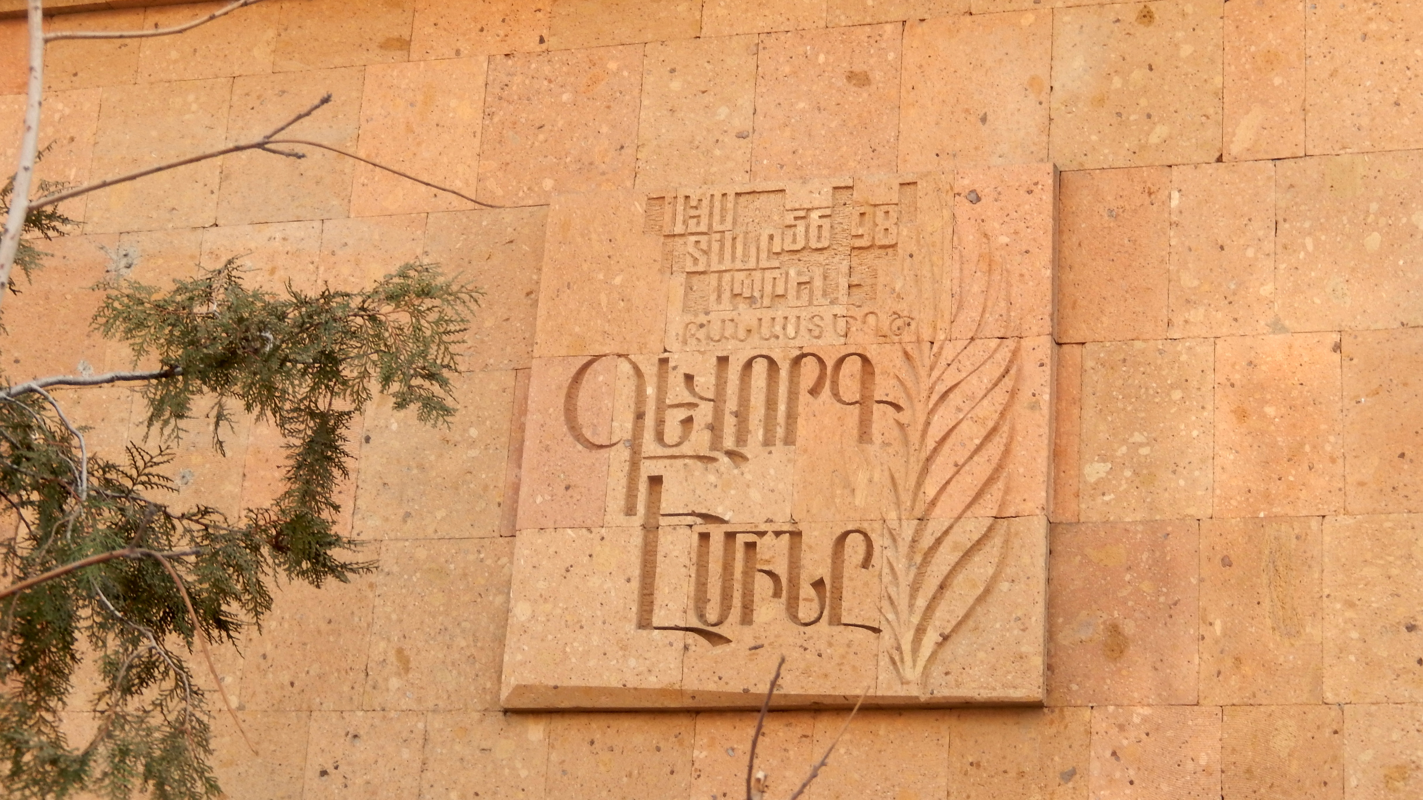 Gevorg Emin Plaque